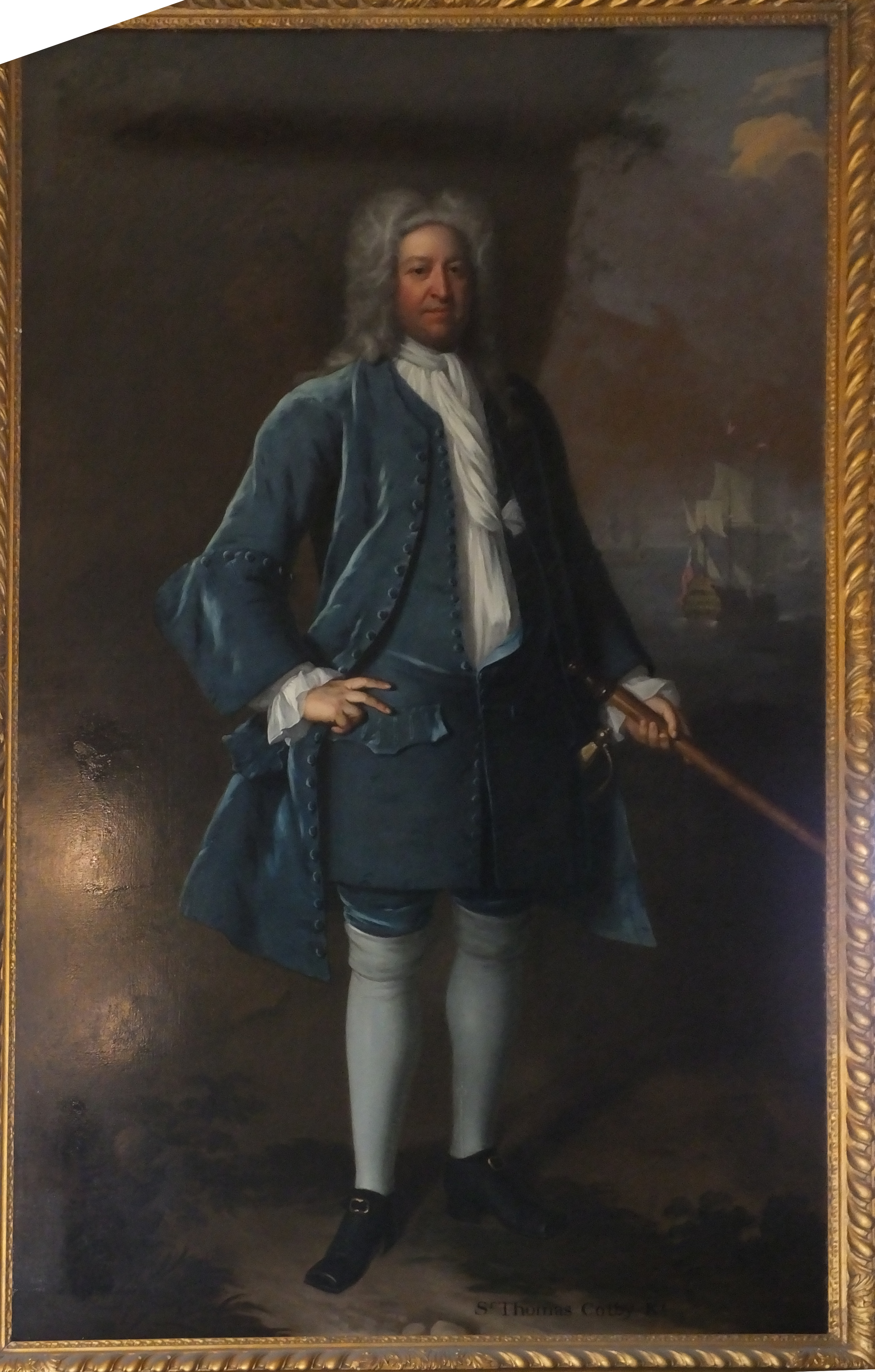 Sir Thomas Colby, 1st Baronet, Bart, MP 1717-1723. A commissioner in the navy. A benefactor to the poor of St Nicholas's Strood. A portrait in the style of Daniel de Coning